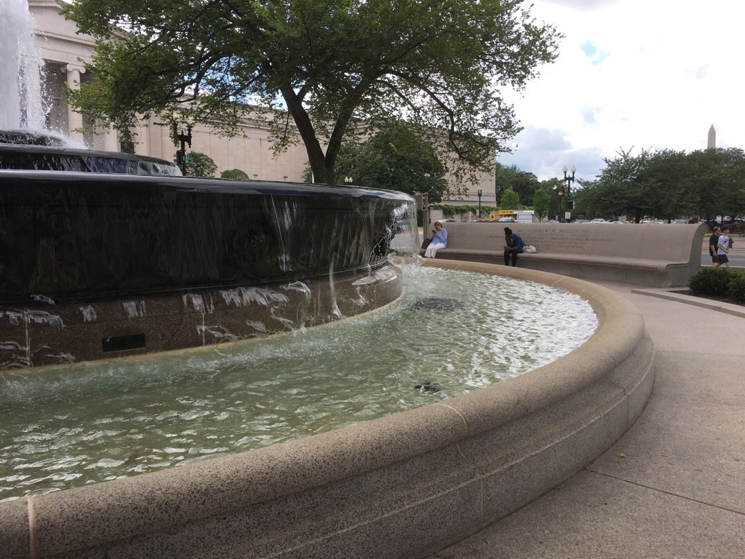 A circular fountain with a bench circling around it Andrew Mellon Memorial Bench Keywords: andrew mellon memorial bench; district of columbia; washington